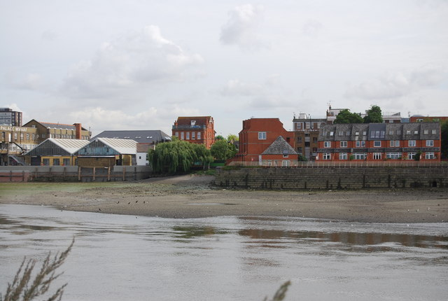 Crabtree Wharf and drawdock, near to Hammersmith, Hammersmith And Fulham, Great Britain.